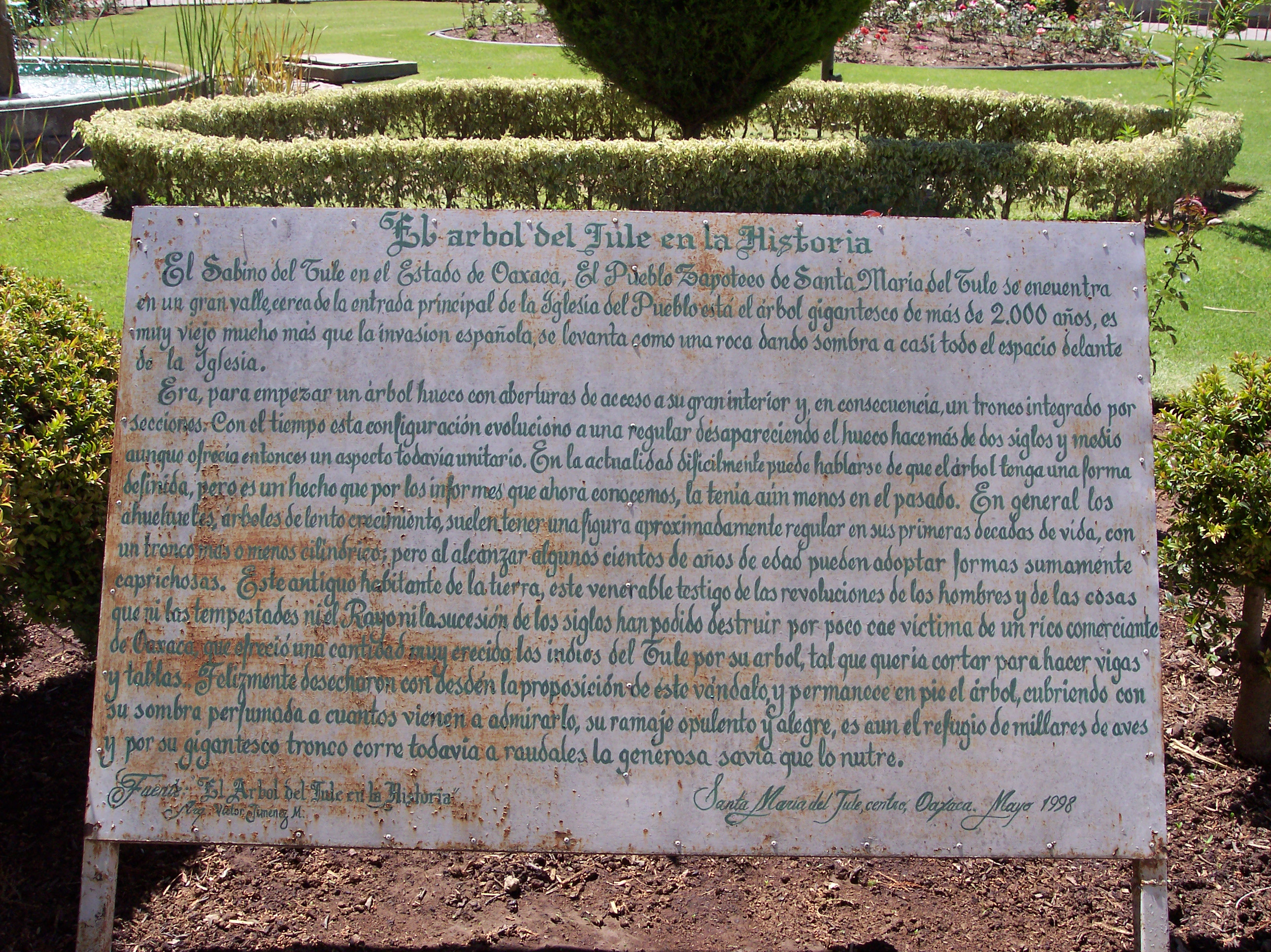 Signboard with a brief history about the Tule Tree. Located in: Santa María del Tule, Oaxaca, Mexico.